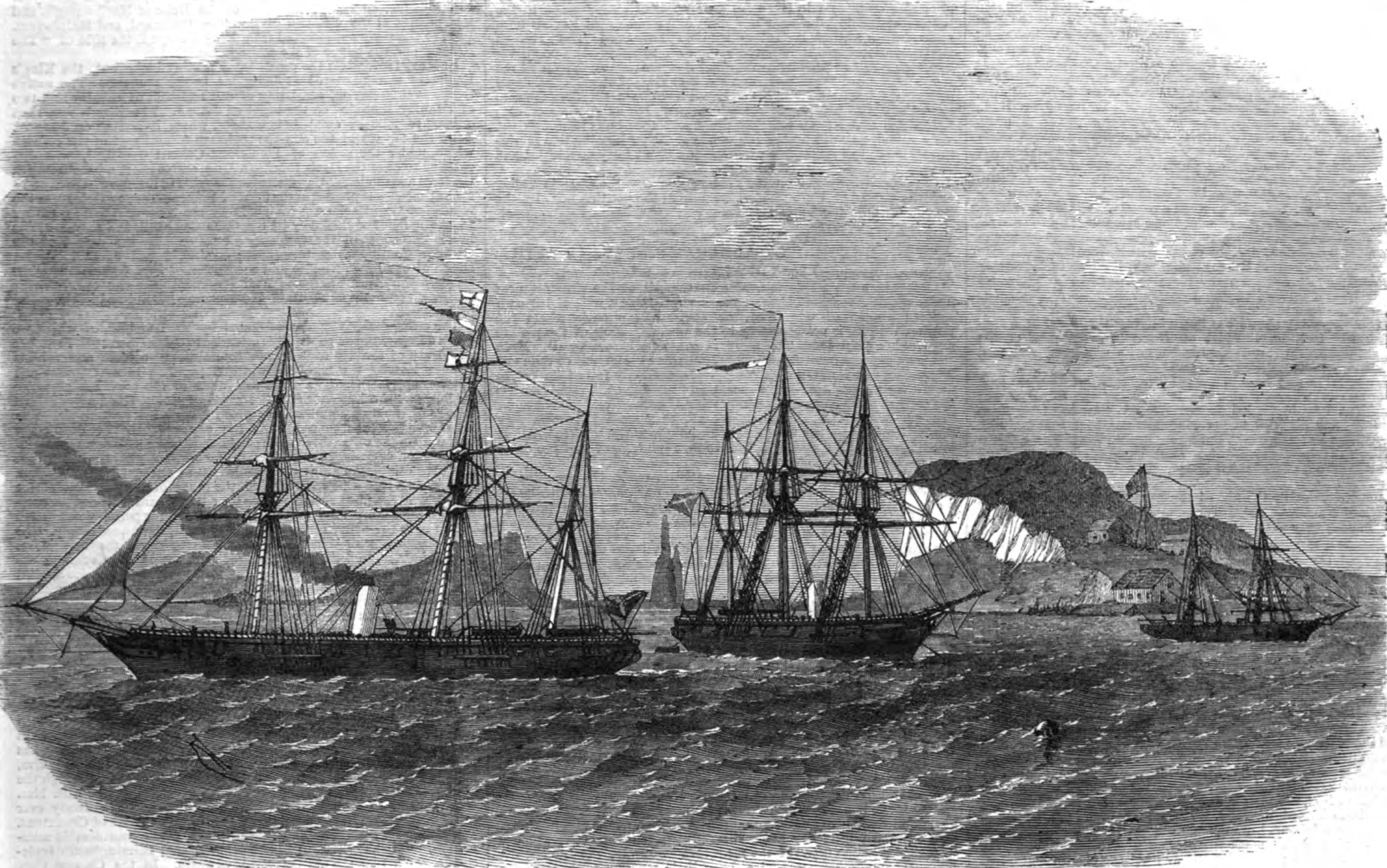 Engraving showing two vessels of European-Chinese Squadron (known as Lay-Osborn flotilla later) at Chefoo, Shantung, China on Nov. 21, 1863. Leftmost vessel is "Pekin", the one in the middle is "China", and rightmost is H. M. Gunboat Insolent. "Pekin" is leaving Chefoo. Description based on ILN v. 44, p. 134.